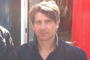 Photo of Paul Peschisolido taken by myself following the friendly game between Tamworth and Burton Albion on 23 July 2011 at The Lamb Ground in Tamworth.